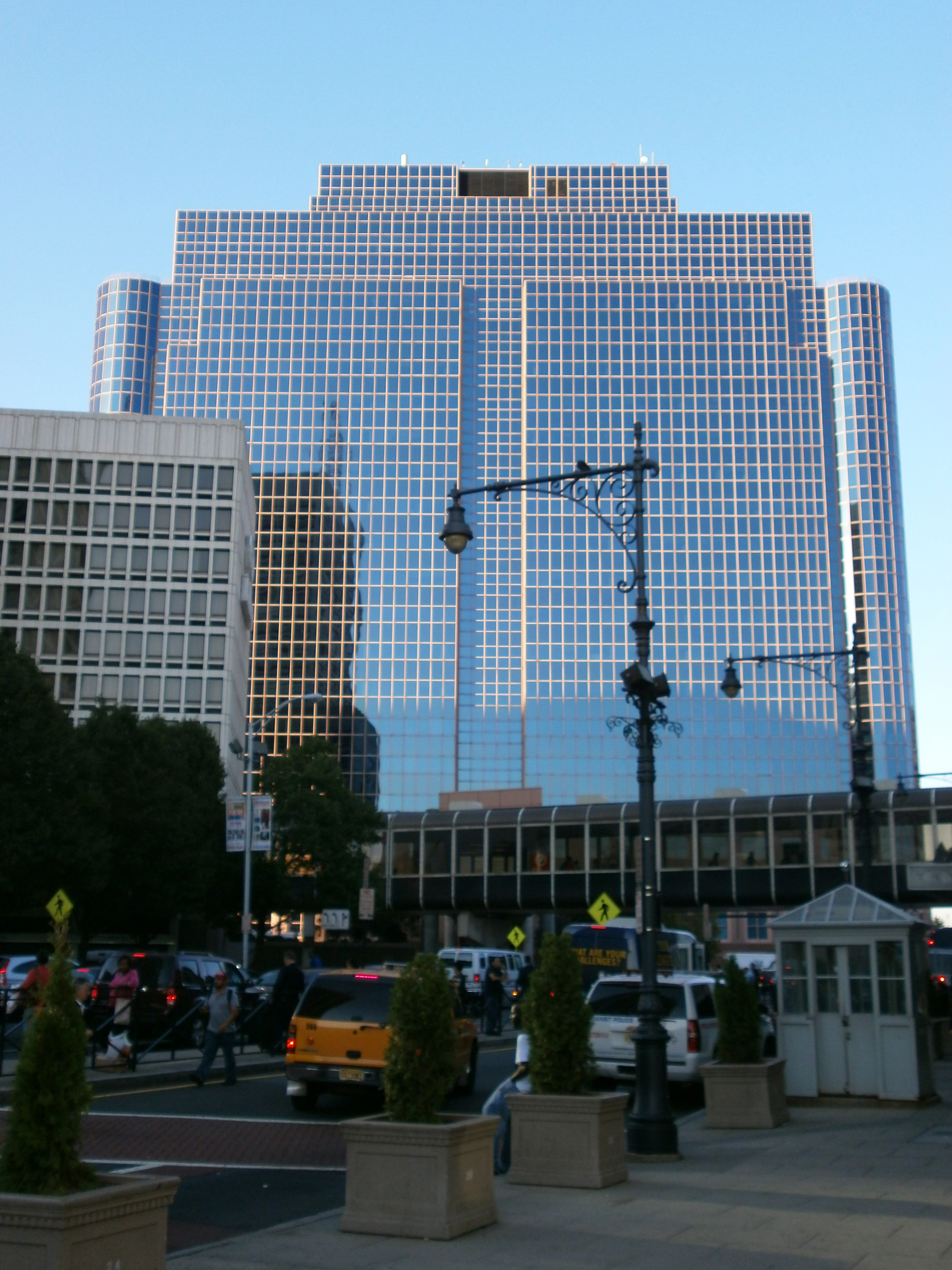 Newark Legal Center from Newark Penn Station (r) with Newark Hilton (l)